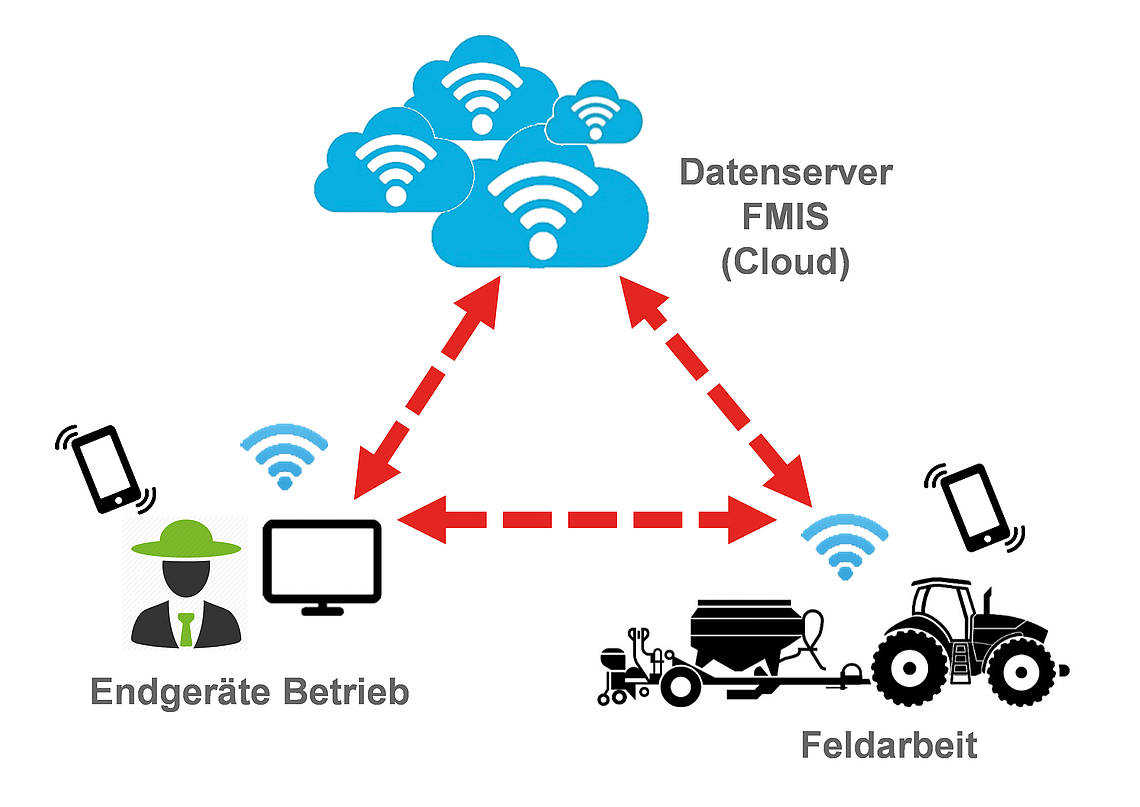 Cloud Computing with Farm Management Information Systems (FMIS) and data connection to field machines and mobile devices